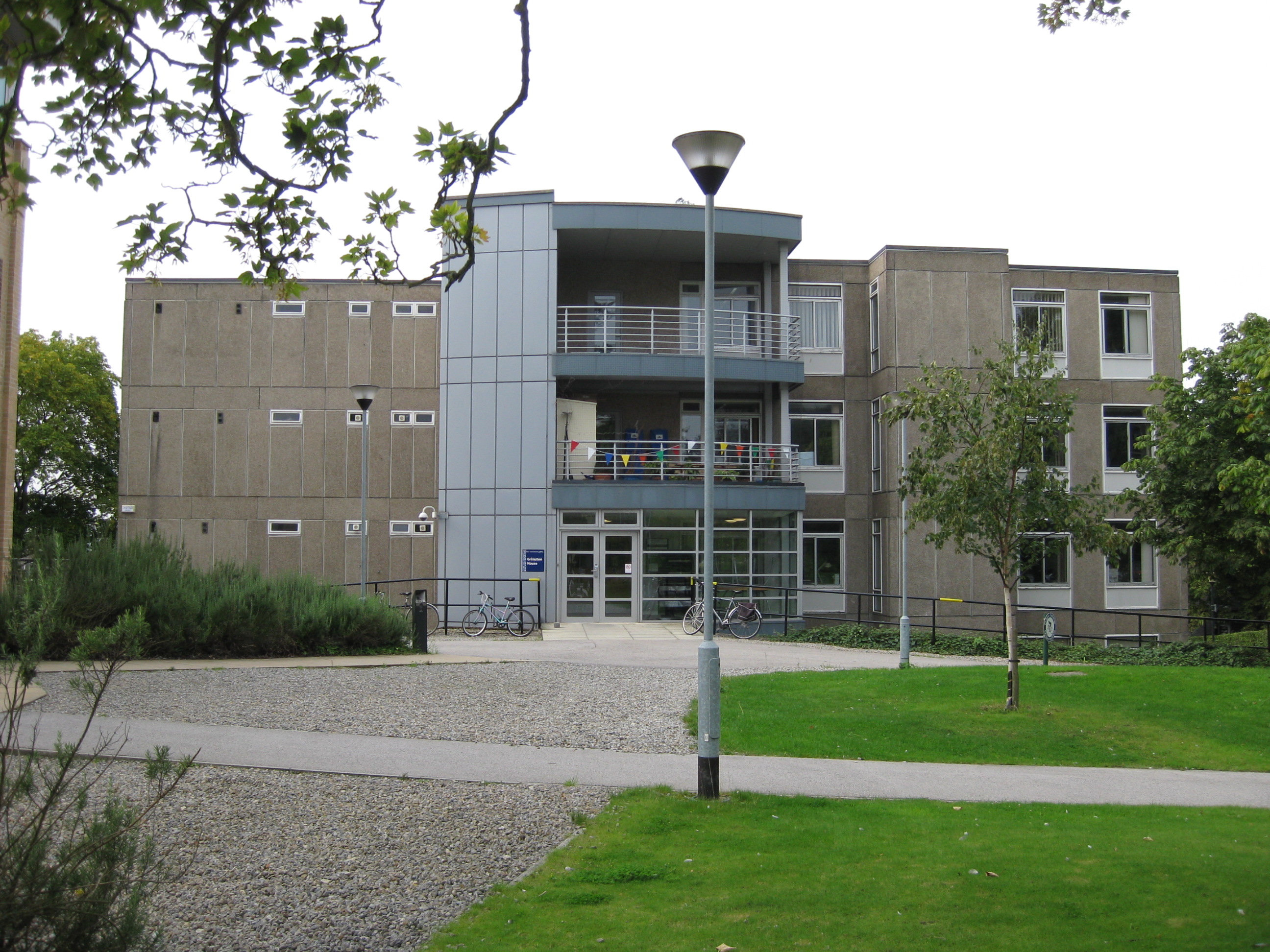 Grimston House (part of Vanbrugh College) University of York